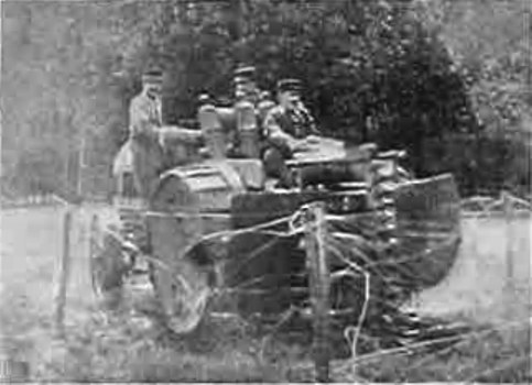 Breton-Pretot_machine